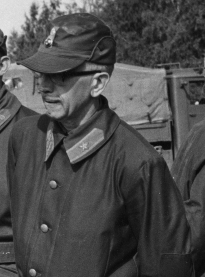 Inspection at Småland Artillery Regiment (A 6). The Chief of Staff in the Southern Military District (Milo S), Major General Sigmund Ahnfelt.